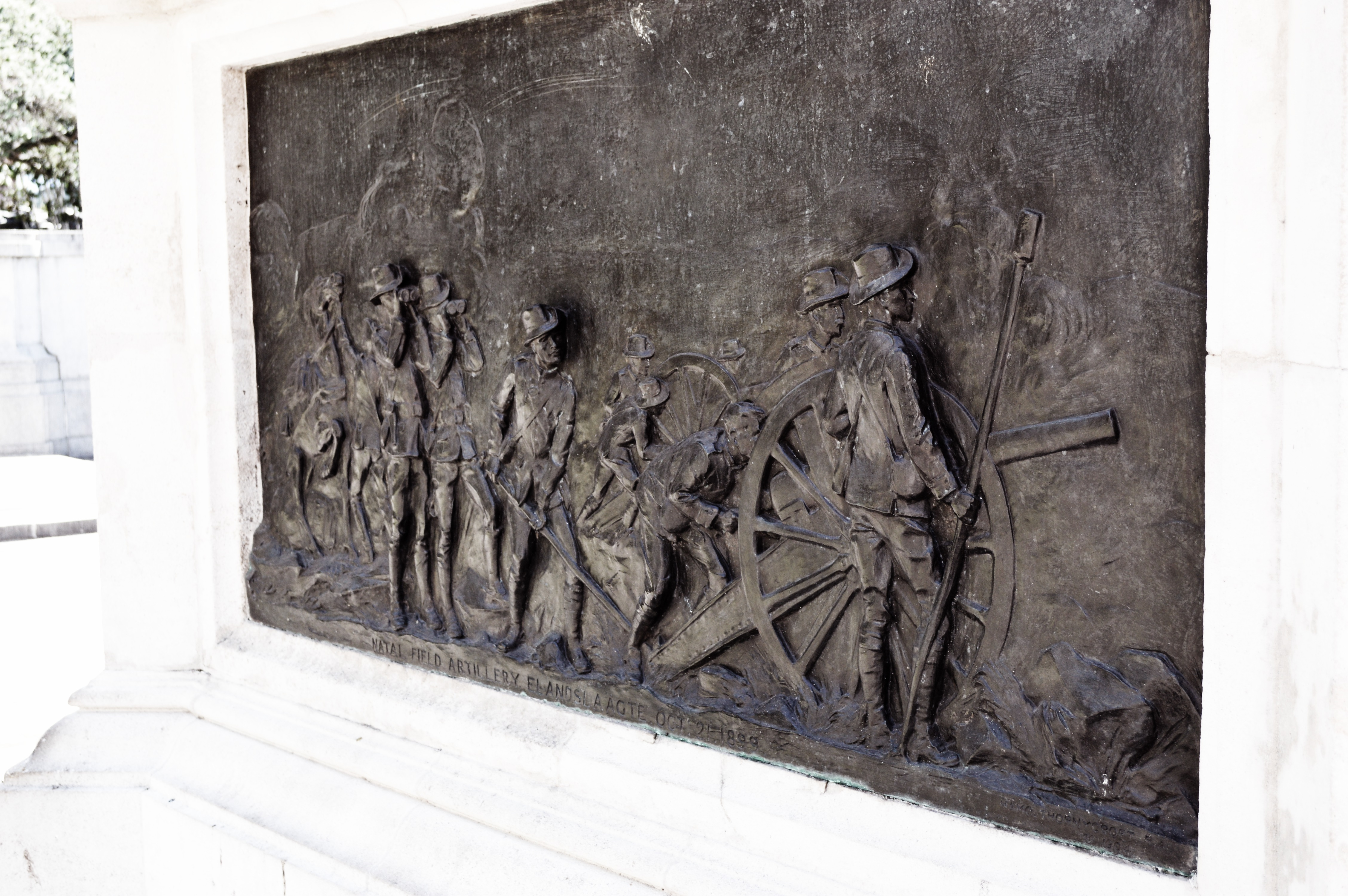 City Hall and Francis Farewell Gardens, Durban